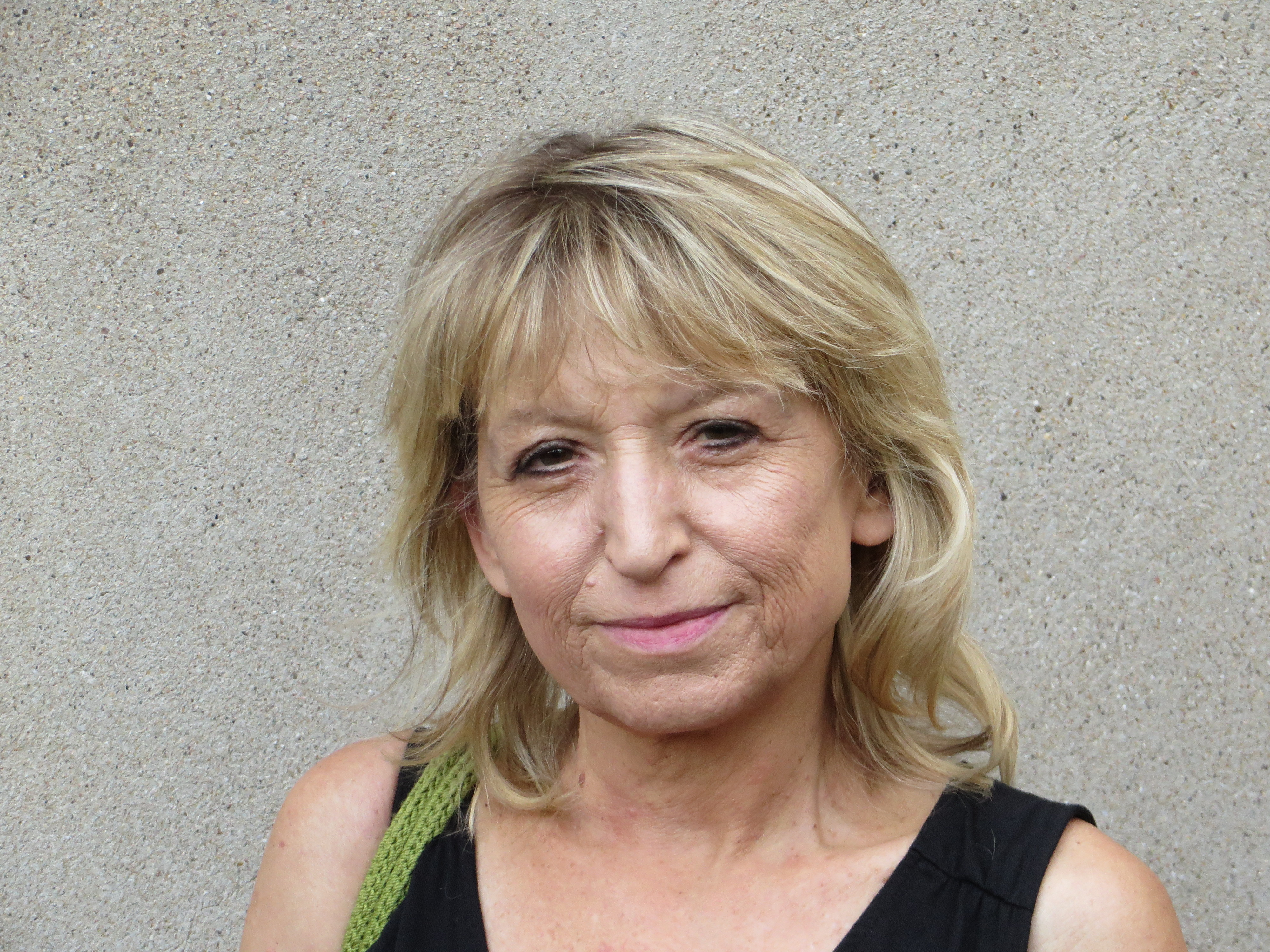 Mag Wompel, German sociologist and journalist